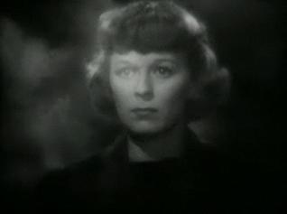 Cropped screenshot of Margaret Sullavan from the trailer for the film The Mortal Storm